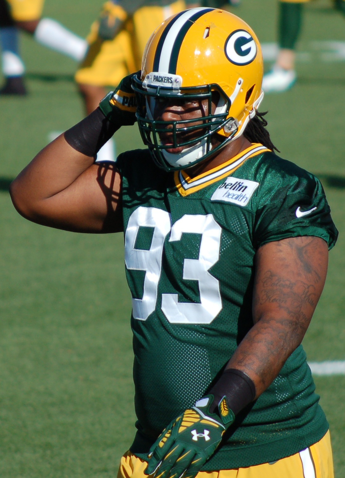 2015 Packers training camp